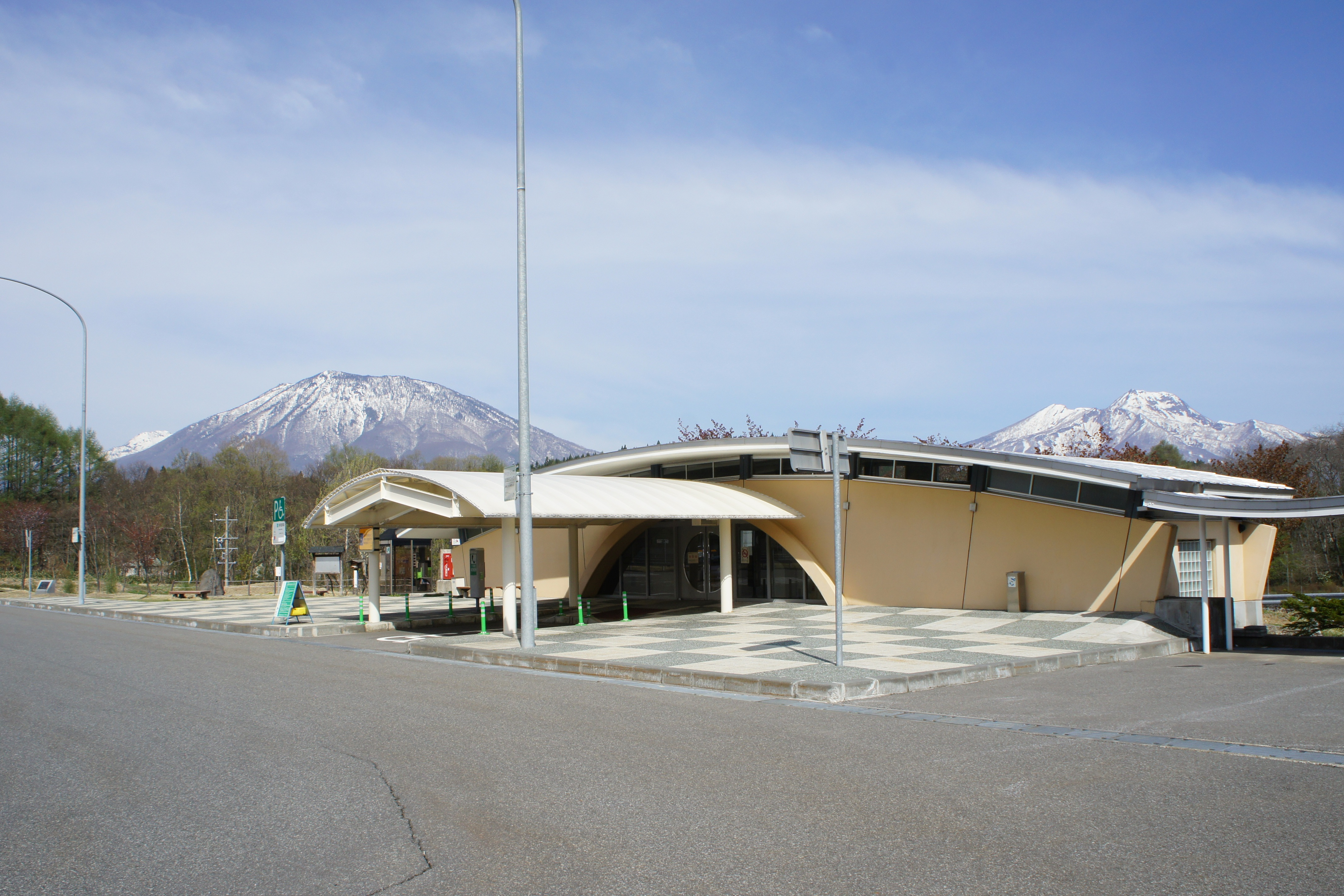 Kurohime-Nojiriko Parking Area, Shinano-machi, Nagano, Japan